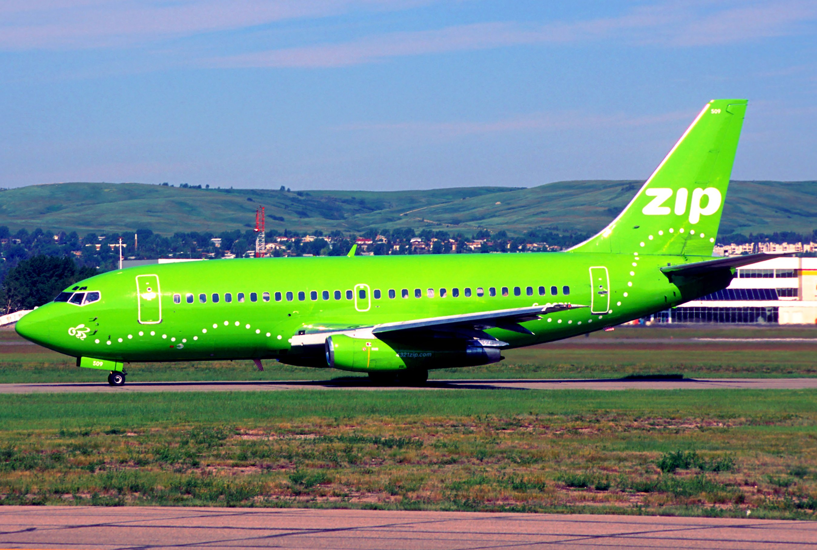 This Boeing 737-217 took its first flight on June 7, 1979... 20/06/1979 CP Air C-GCPN 26/04/1987 Canadian Airlines C-GCPN 05/04/2001 Air Canada C-GCPN 21/09/2002 Zip C-GCPN suspended operations September 7, 2004 01/03/2007 Vensecar Internacional YV295T 02/11/2007 Venezolana YV295T